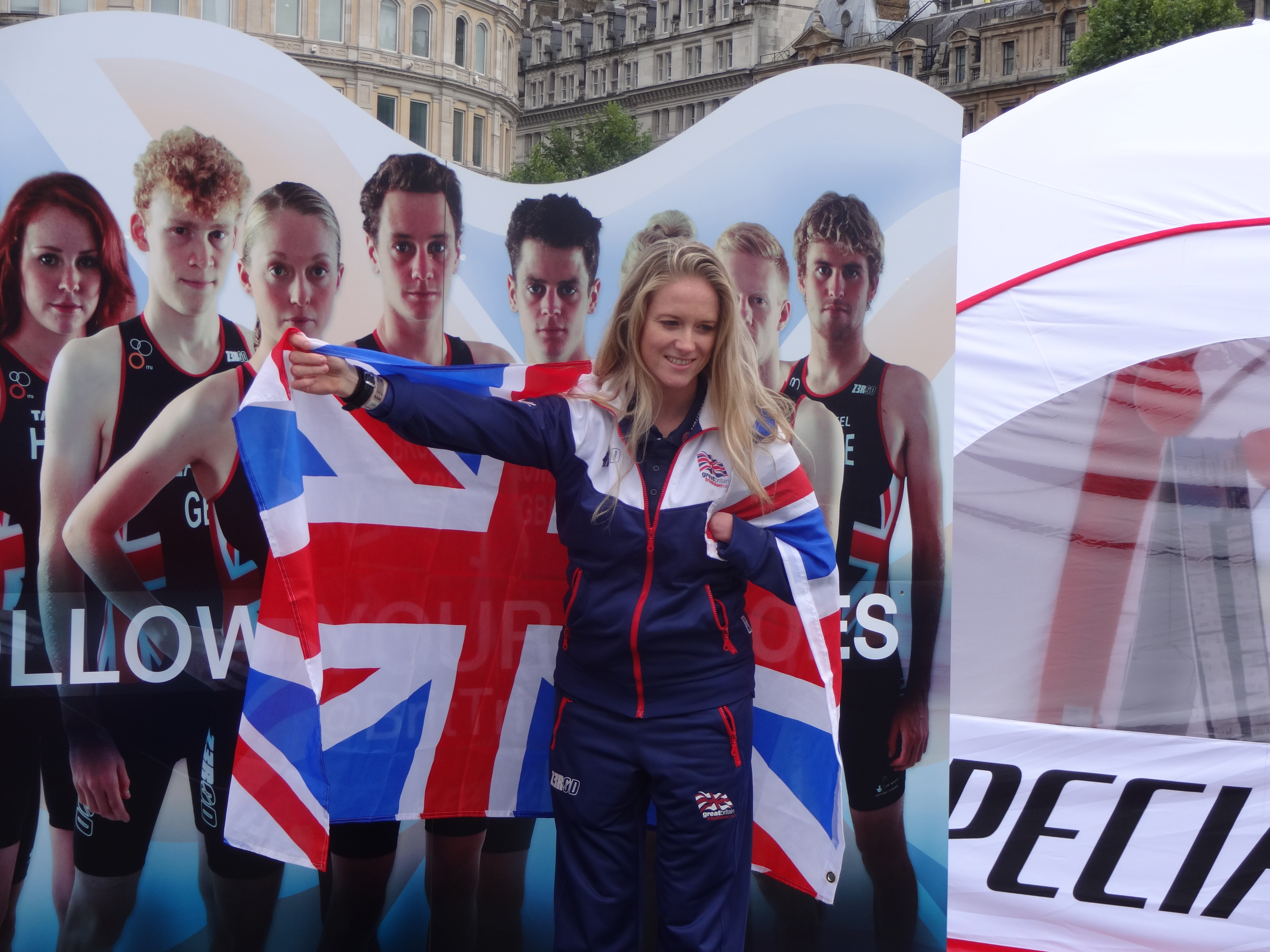 Faye McClelland photographed after winning Gold at the 2012 World Triathlon Championships in Hyde Park